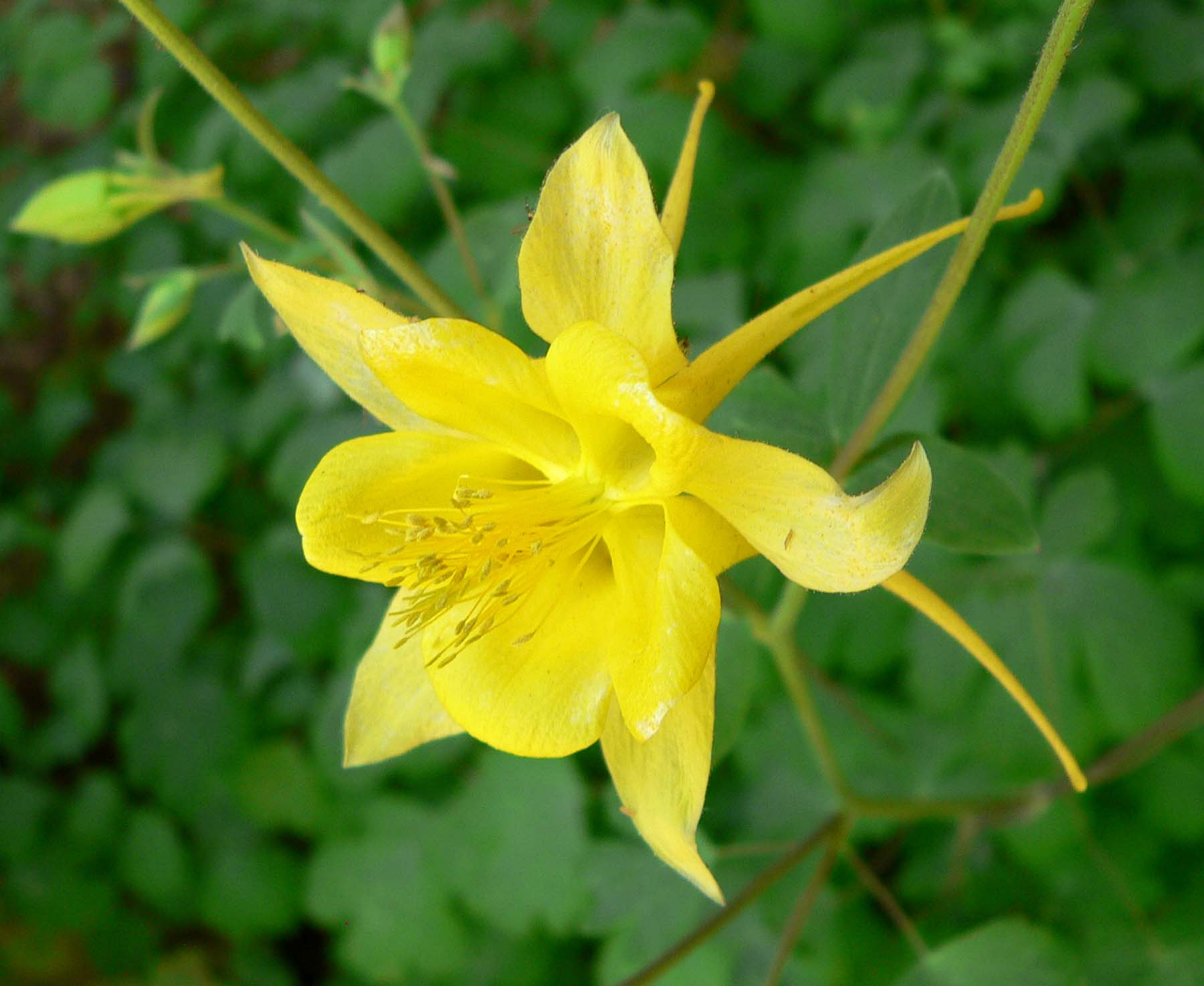 Photo of Aquilegia chrysantha at the Desert Demonstration Garden in Las Vegas, Nevada